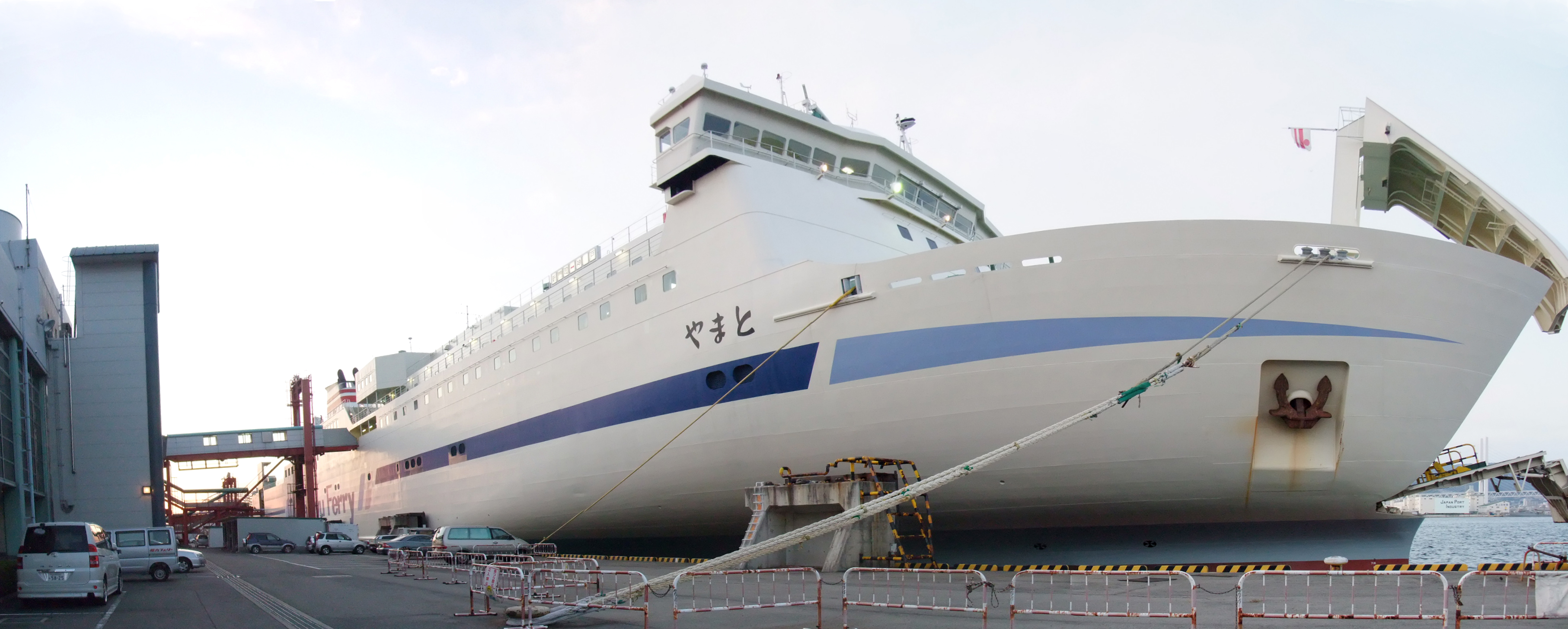 Hankyu Ferry "YAMATO" (kobe,Hyogo prefecture,Japan)